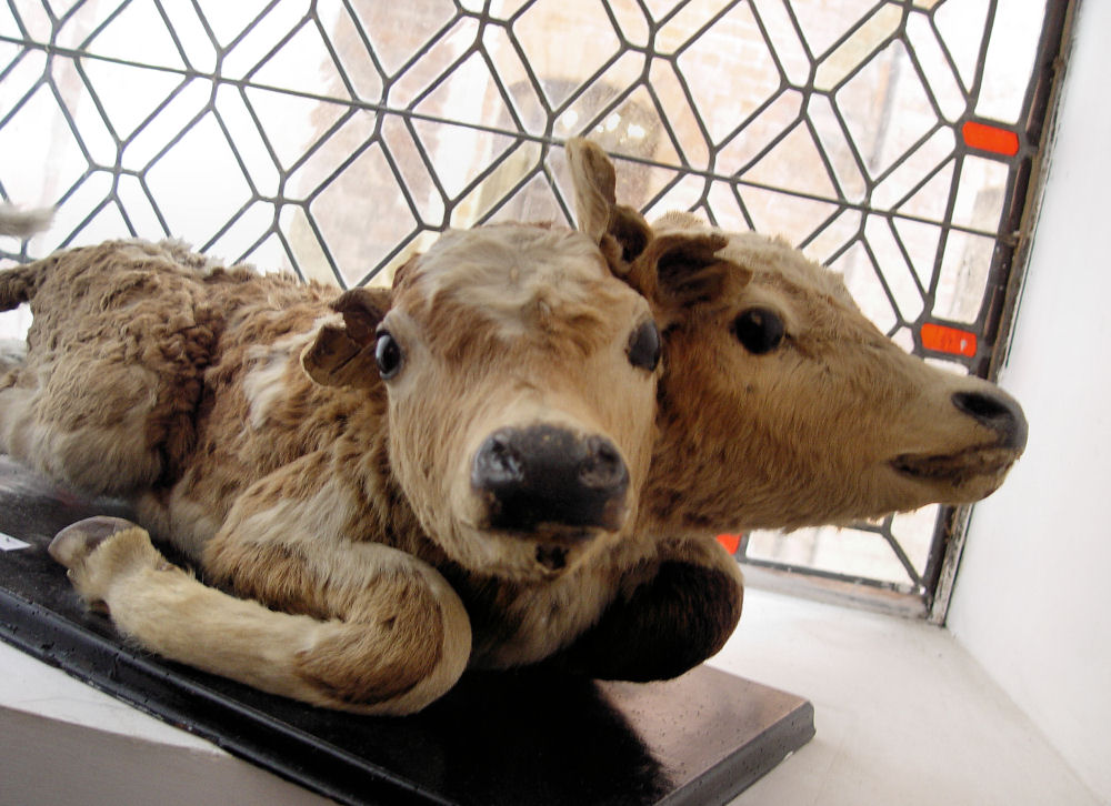 A little cow with two heads, from museum: Castle of Dukes of Pomerania, Darłowo, Poland